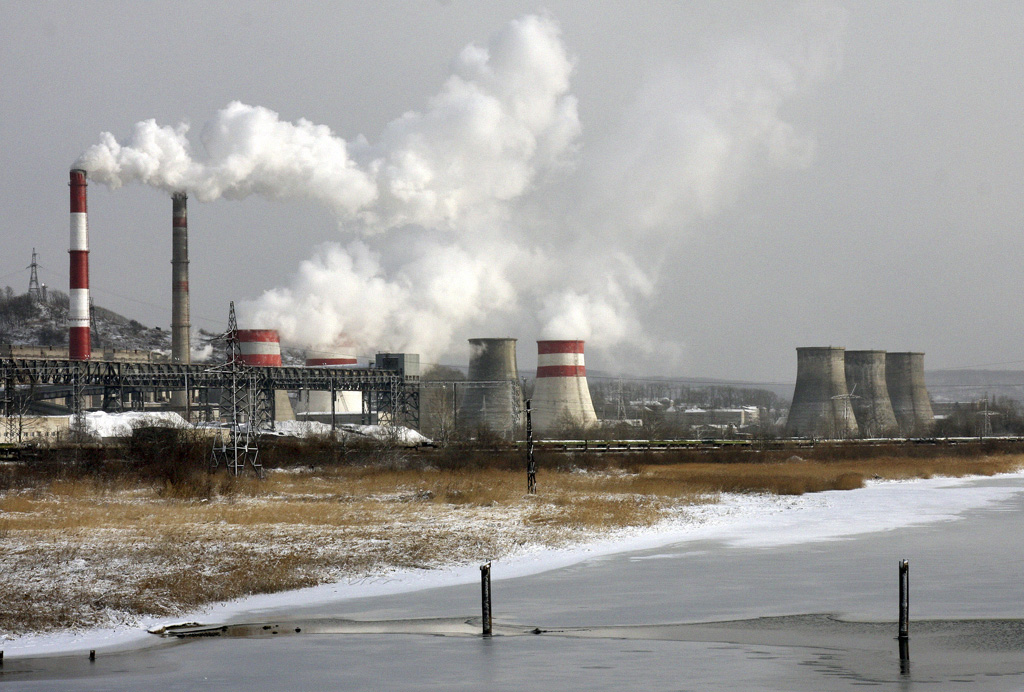 “Artemovsk thermal power station, Primorye”. Artemovsk thermal power station, Primorye. An upgraded BKZ-220-100F boiler was commissioned. The technical upgrading of the station will increase its output and environmental safety.